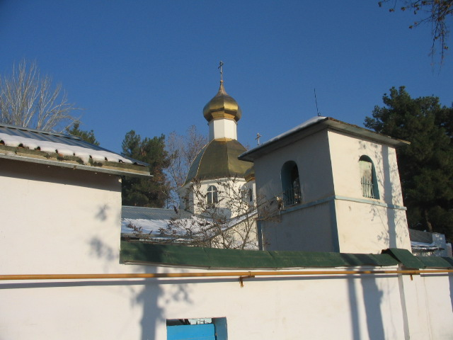 Orthodox Church in Dushanbe Tajikistan